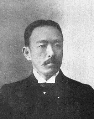 Nagashige Kuroda